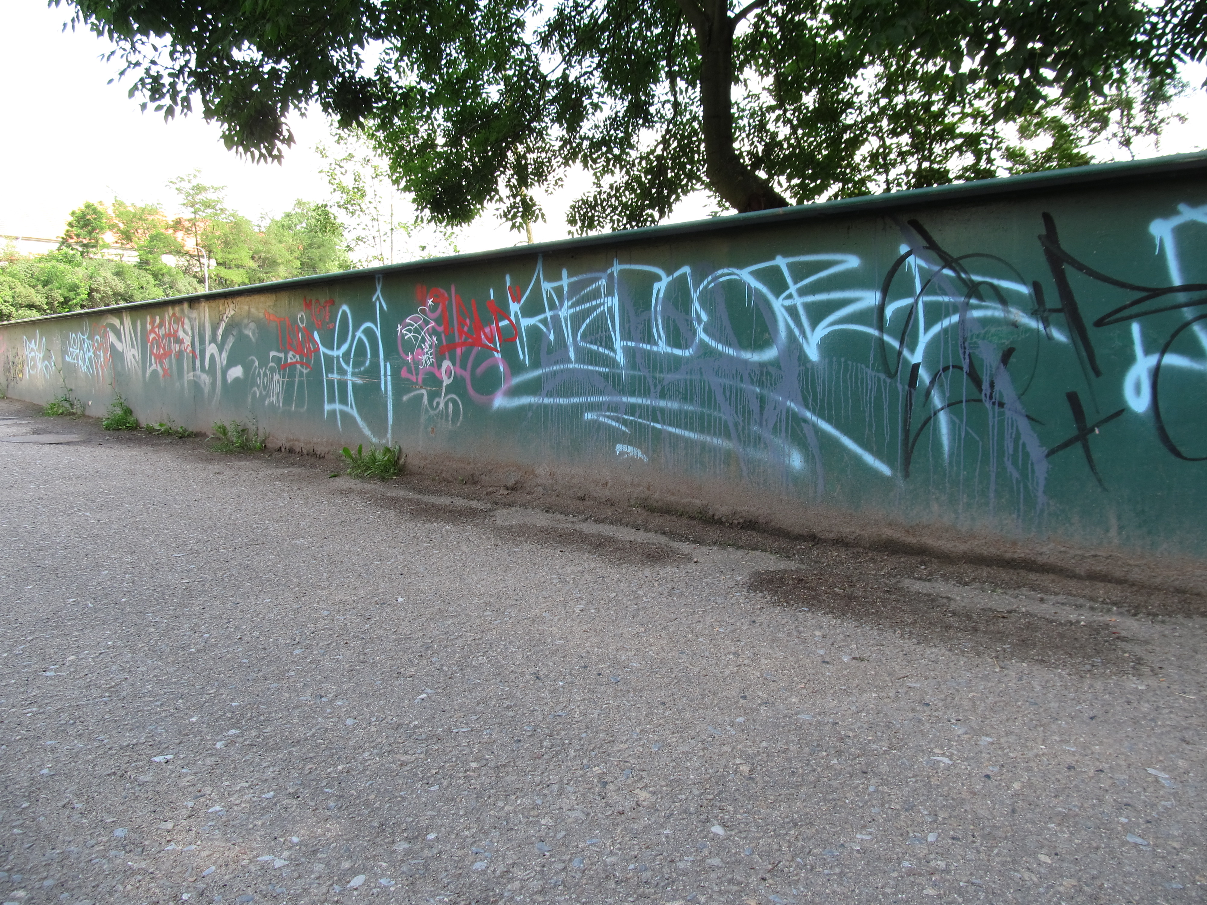 Graffiti on a bridge O pět minut dříve pořídil autor fotografii zámku v Moravském Krumlově.